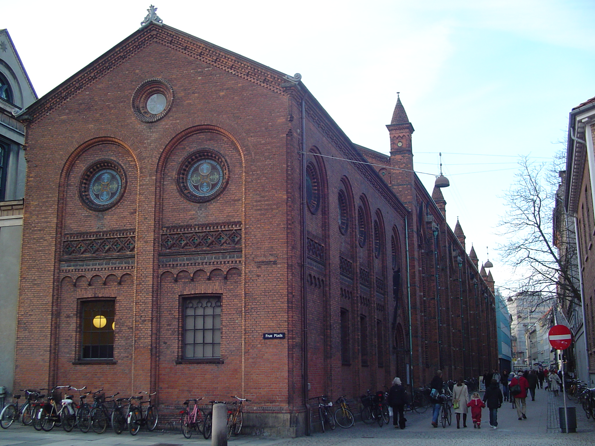 The Danish Royal Library, exterior view of building in Fiolstræde. Picture by user:thue on 27/2-2006.